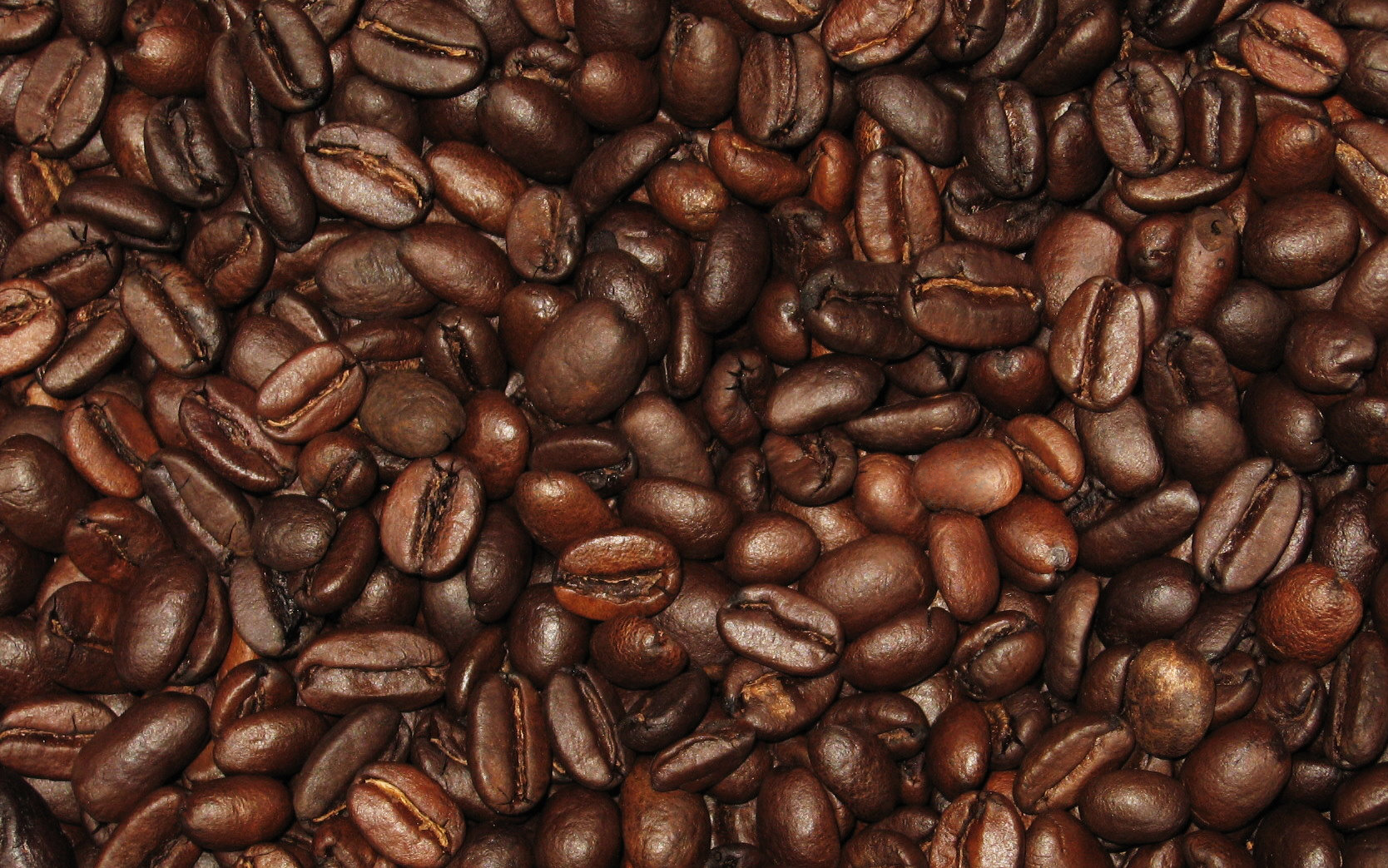 Ethiopia Kembata from Sweet Maria's